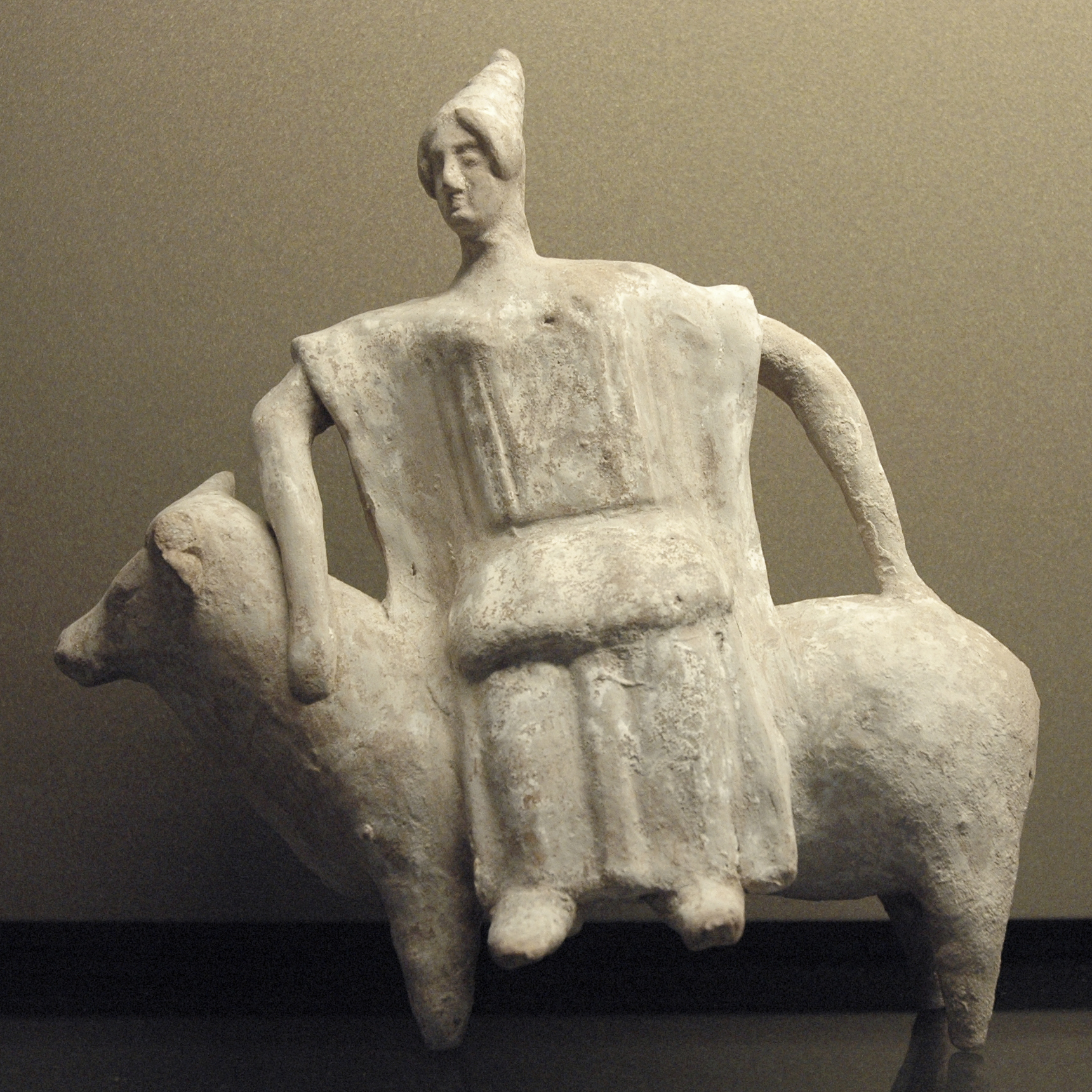 Europa and Zeus transformed into a bull. Terracotta figurine from Boeotia, ca. 470 BC–450 BC.